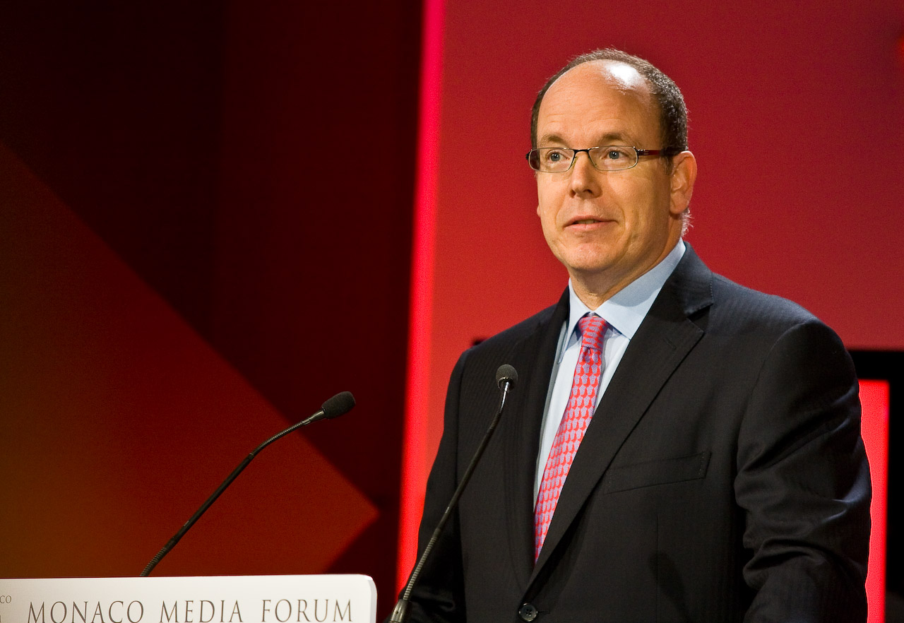 Prince Albert II of Monaco